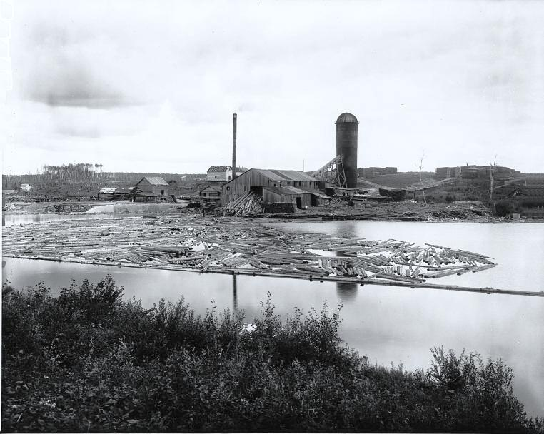 Photograph, Harricanaw River Mills, Quebec, QC, 1916 (?), Wm. Notman & Son, Silver salts on glass - Gelatin dry plate process - 20 x 25 cm